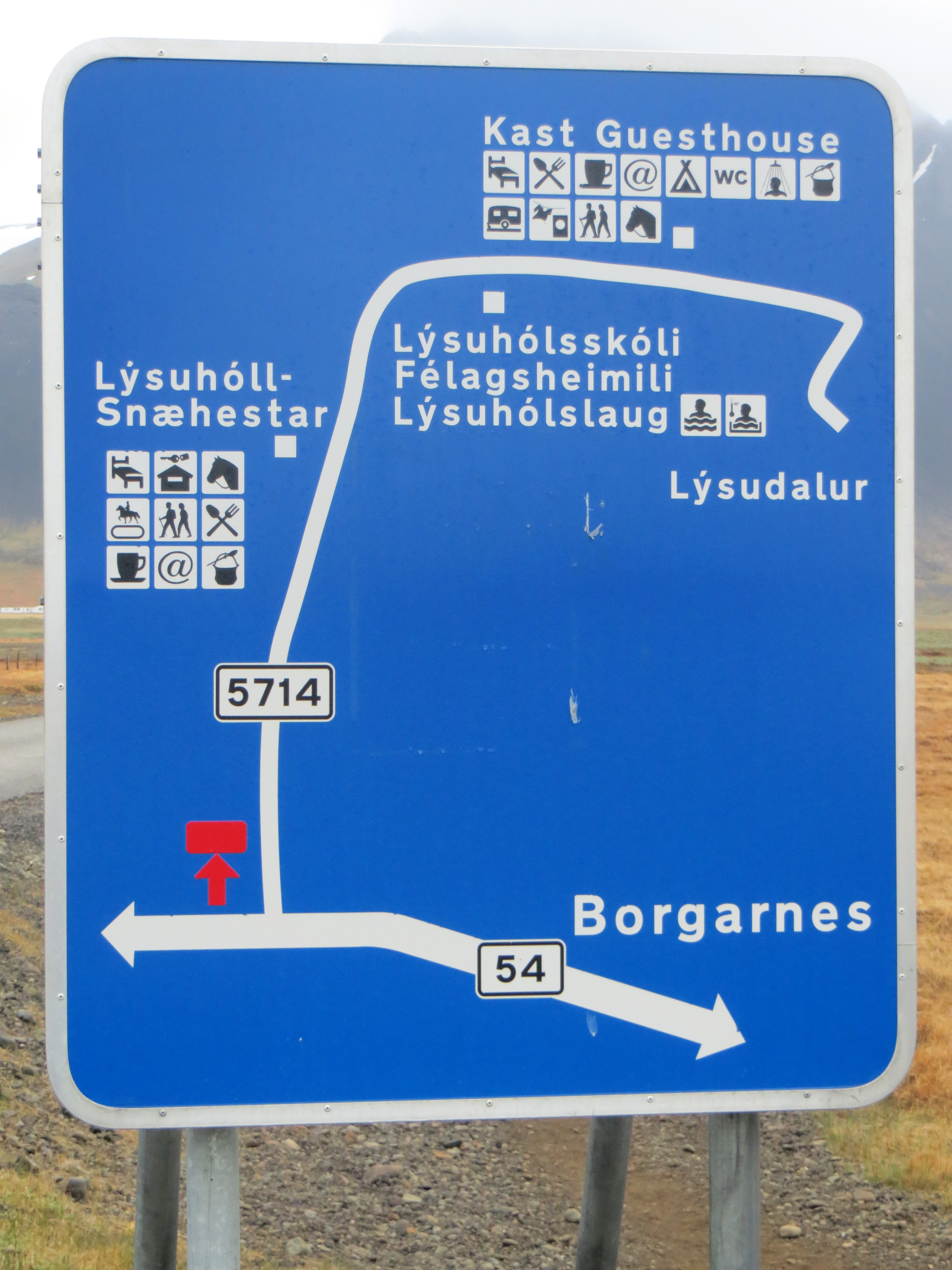 A road sign with oeconyms (Lýsuhóll, Lýsudalur) in the Municipality of Snæfellsbær, Iceland